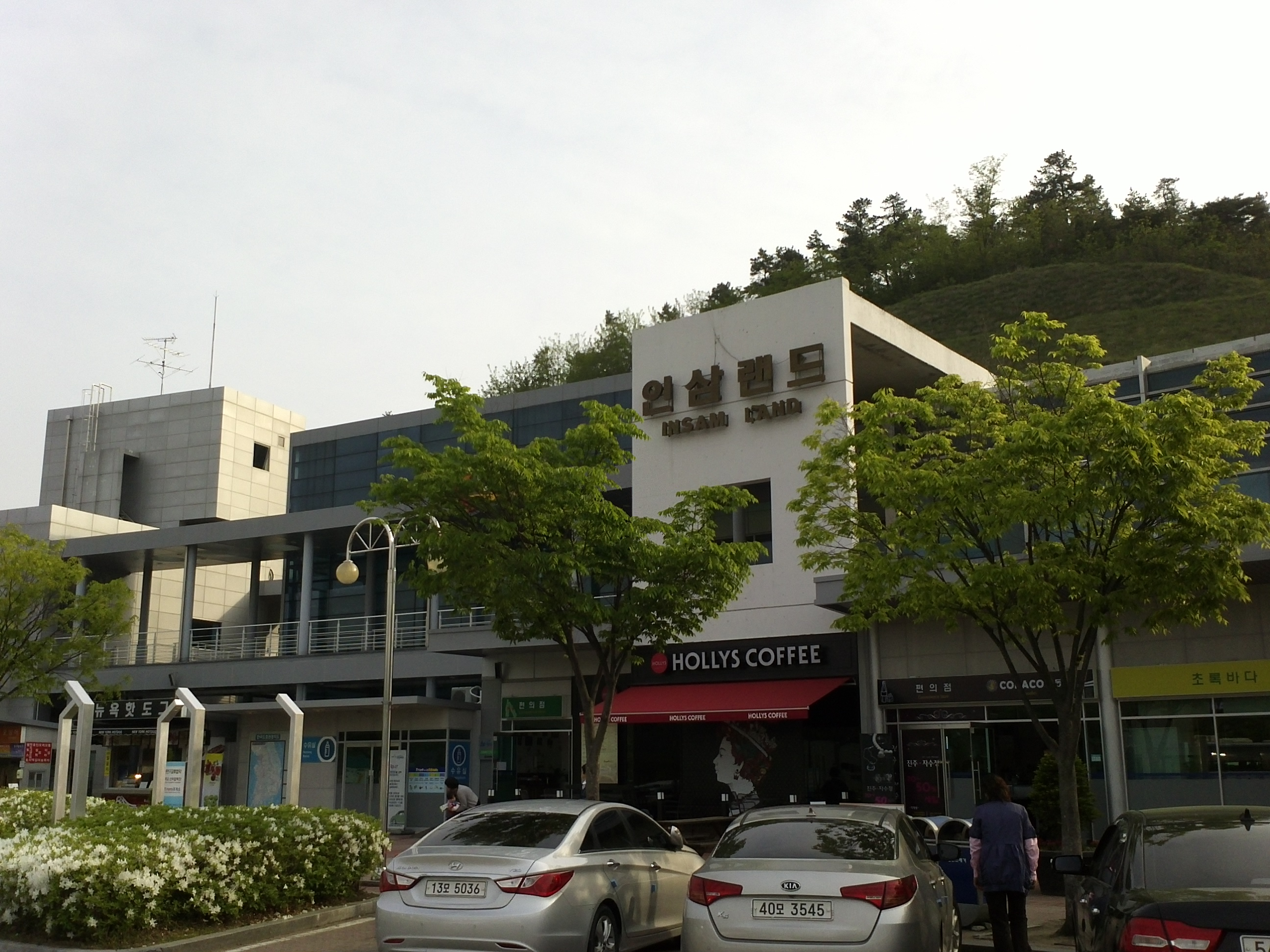 Insam Land Resting Place, Upper way on Daejeon-Tongyoung Express way